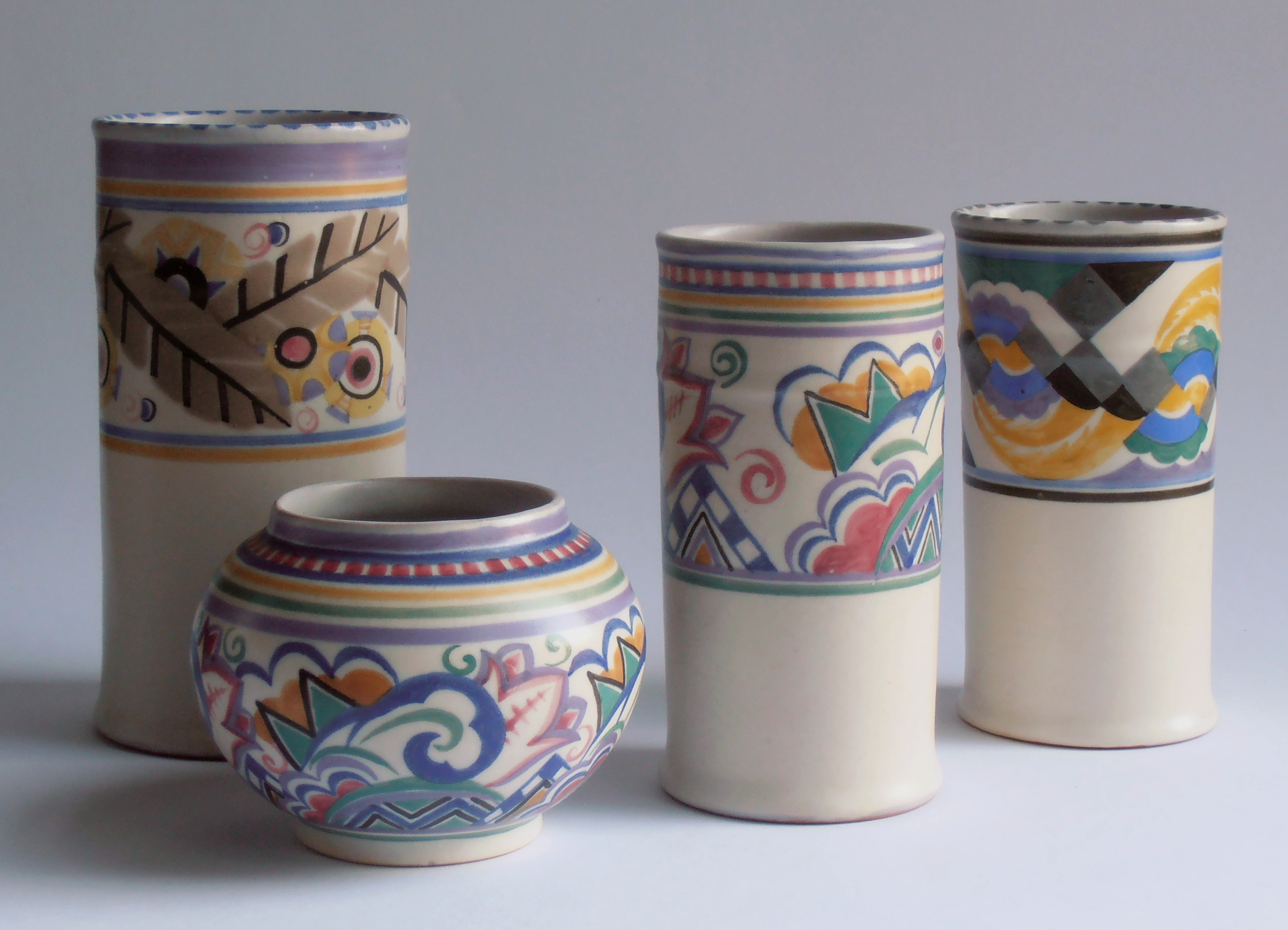 Art Deco Poole Pottery with Truda Carter patterns dating from the late 1920's and early 1930's